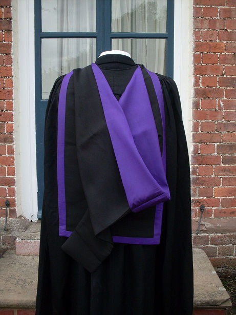 Detail of University of Manchester postgraduate masters' hood.